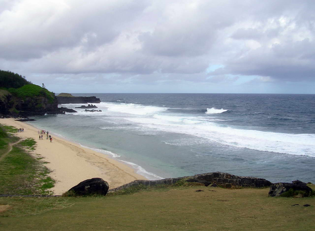 Gris Gris - part of the southern coast of Mauritius